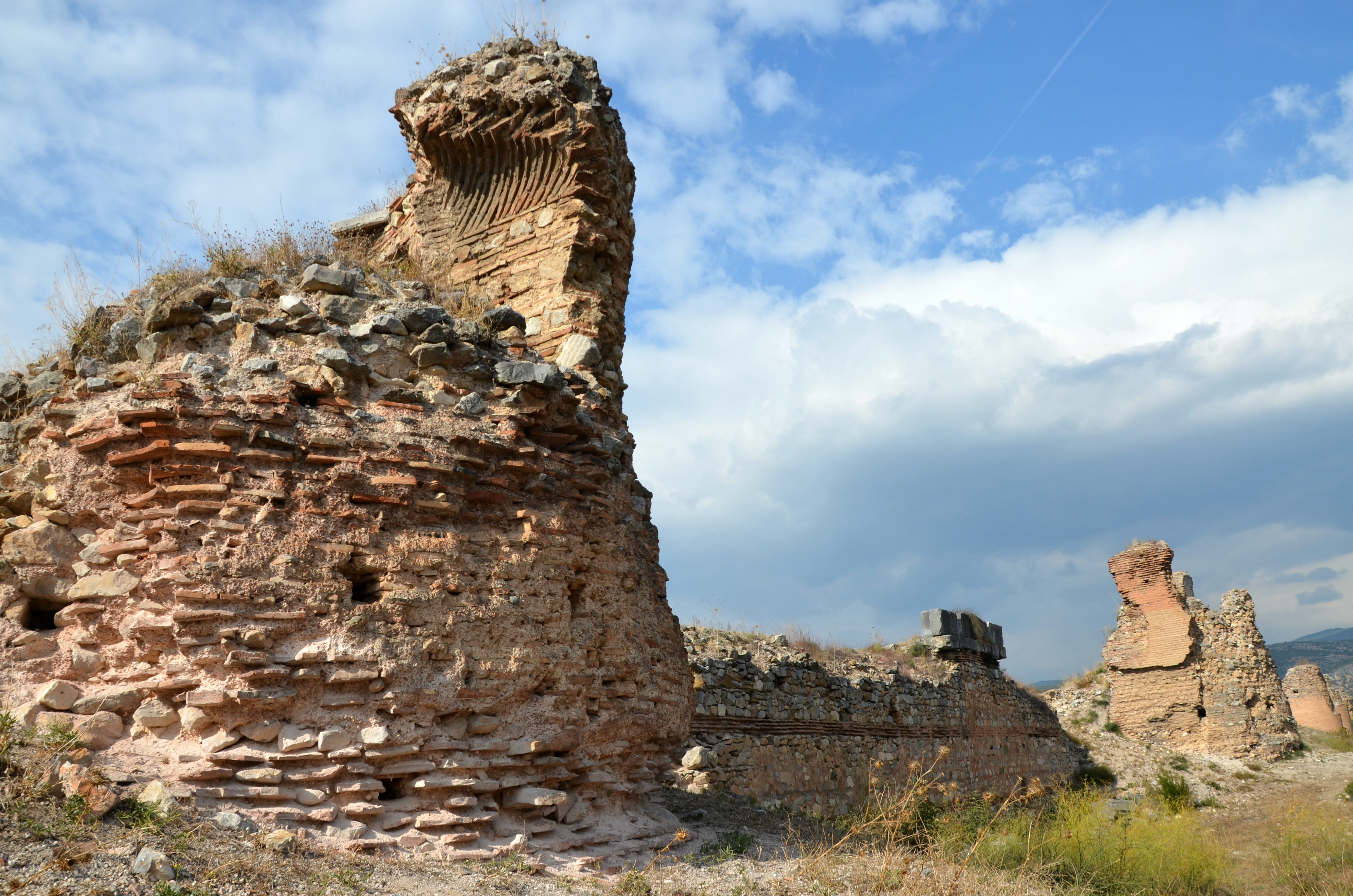 Nicaea's Byzantine fortifications, Iznik, Turkey